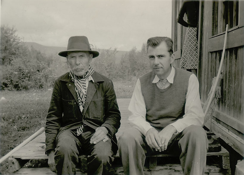 Unidentified Native Man (possibly Steward's informant, Chief Louis Billy Prince) and Julian Steward (1902-1972) Outside Wood Building, Bow and Quiver of Arrows Leaning Against Wall Nearby 1940